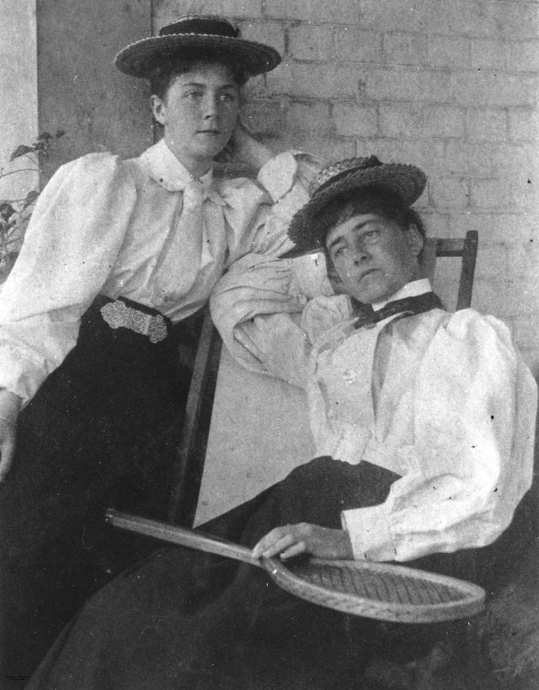 Two women dressed for a game of tennis, 1890-1900 Two women dressed for a game of tennis. Both wear dark skirts and light coloured blouses with puffed sleeves. The woman on the left has a turned-down collar with a short necktie. The woman on the right's blouse has a high, starched collar. She holds a tennis racquet. Both women wear straw boater hats perched on top of their hair.